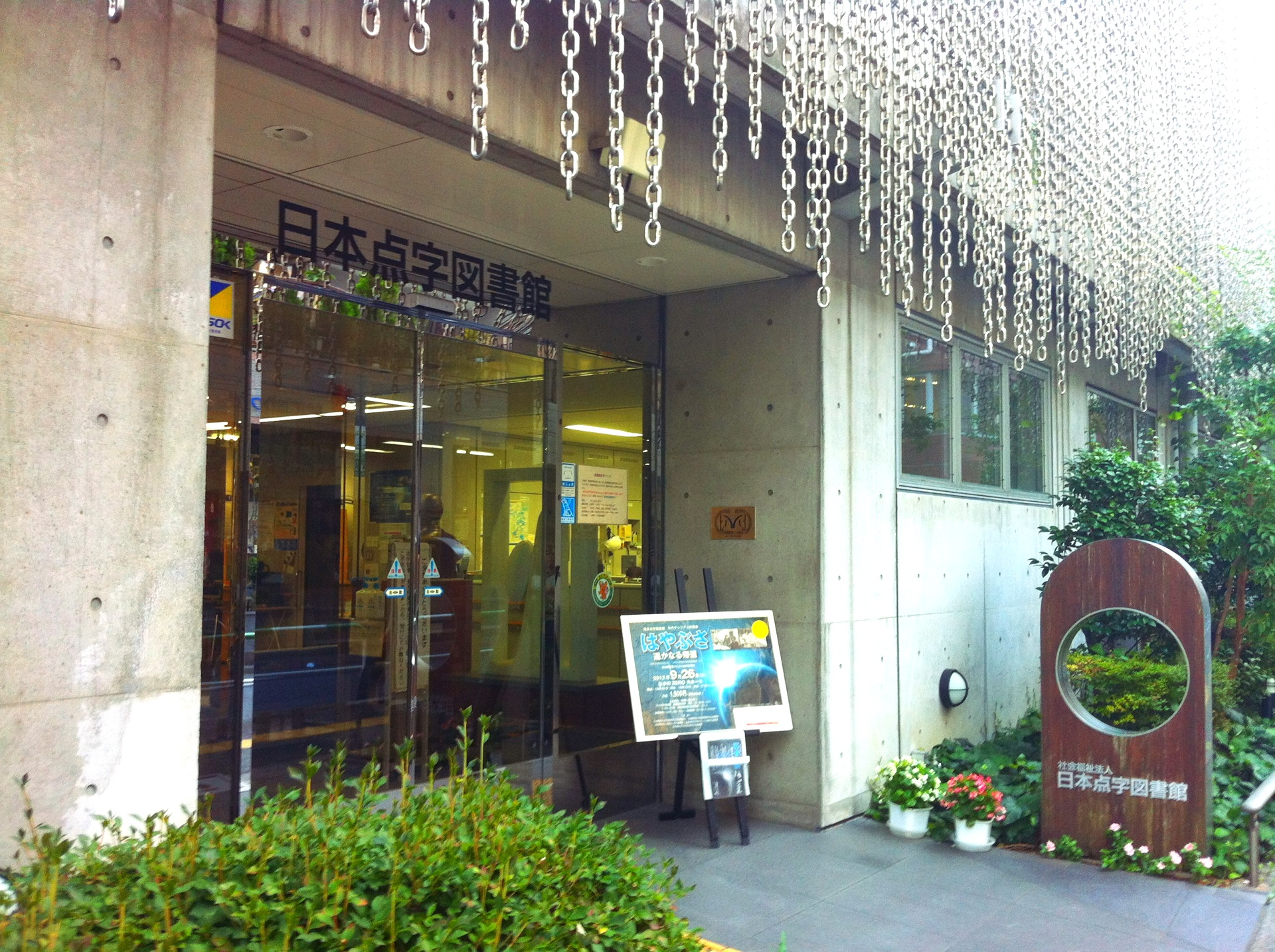 Japan Braille Library (This image is dedicated to that special someone who misunderstood the auditory indicators leading up to this library.)